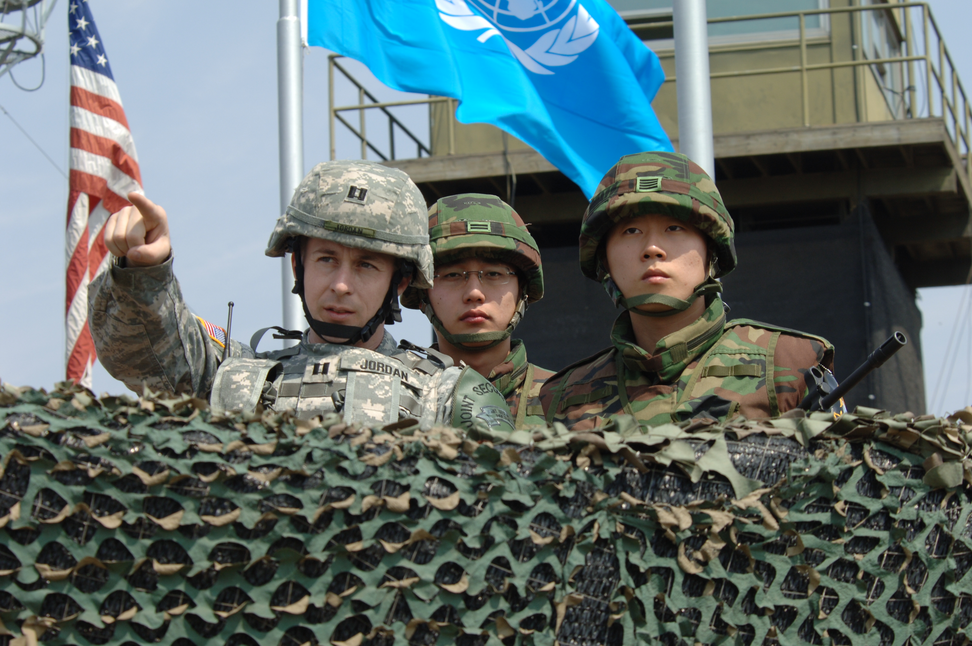 Republic of Korea (ROK) and United States (U.S.) soldiers monitor the Korean Demilitarized Zone from atop Observation Post (OP) Ouellette. View looking north from south.